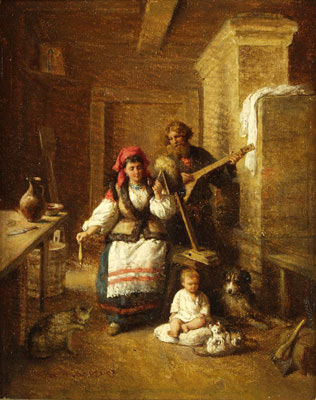 Russian Family